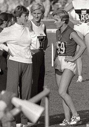 Hildrun Claus and Vera Krepkina (right) at the 1960 Olympics